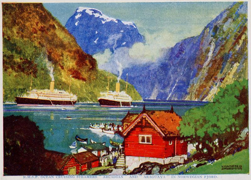 Royal Mail Lines advertising poster of the liners Arcadian and Araguaya in a Norwegian fjord